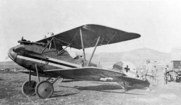 A German Albatros D.Va aircraft (serial 7416/17) from Jasta 300 captured by Australian forces at Jenin, North Palestine, in 1918.